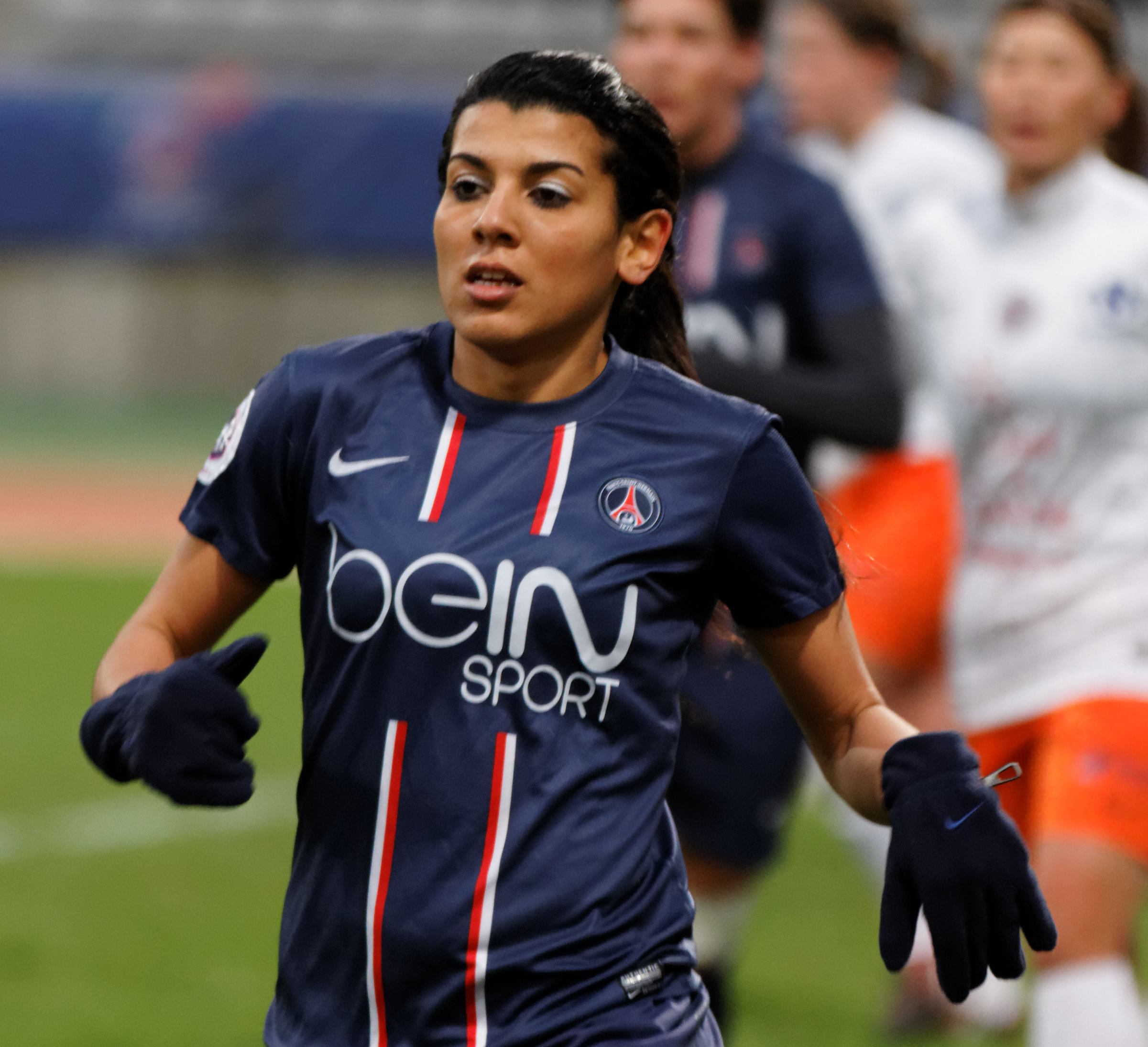 PSG-Montpellier, January 13th, 2013. Kenza Dali (PSG).